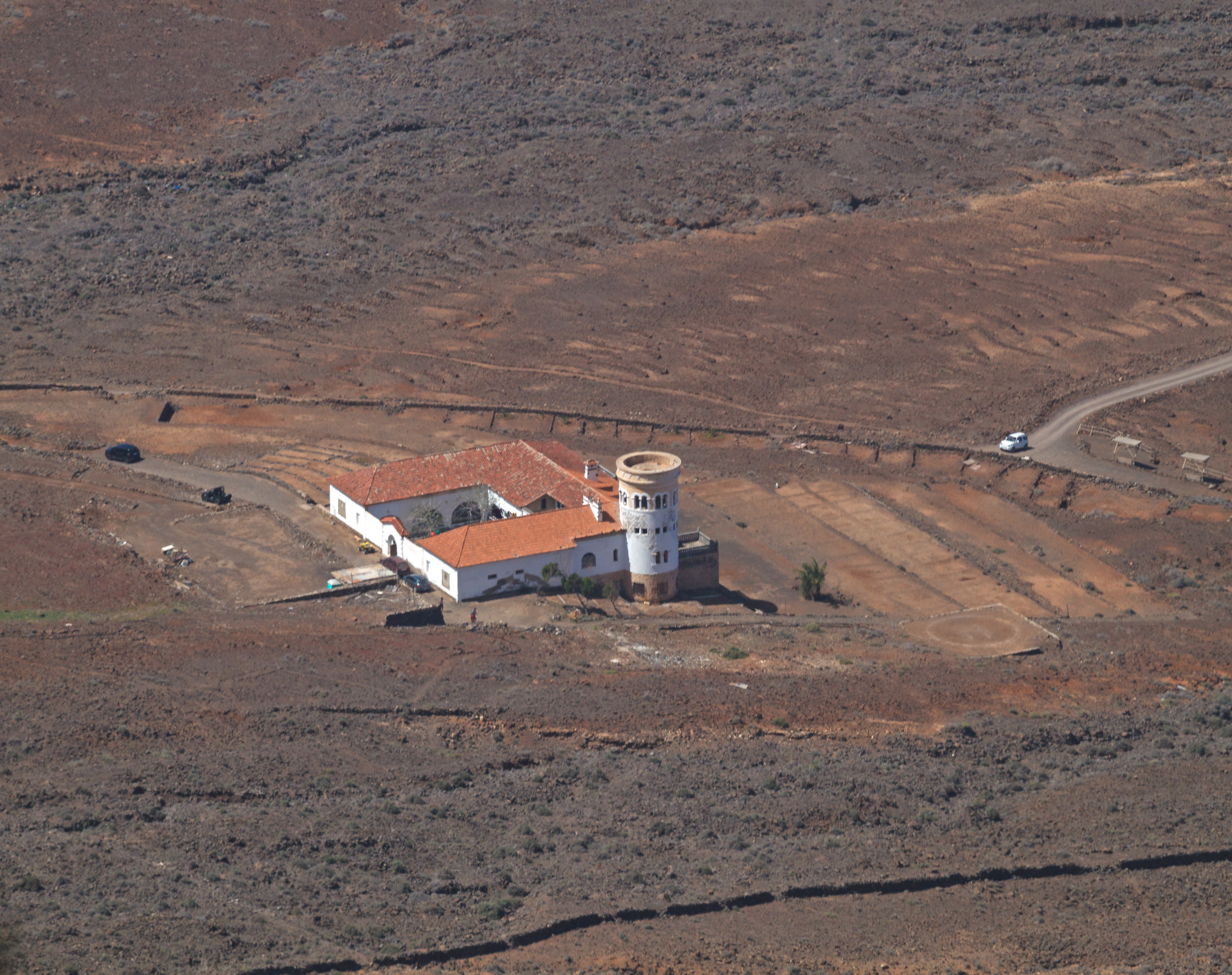 Villa Winter, Jandía, Fuerteventura, Canary Islands, Spain; view from Pico de la Zarza.